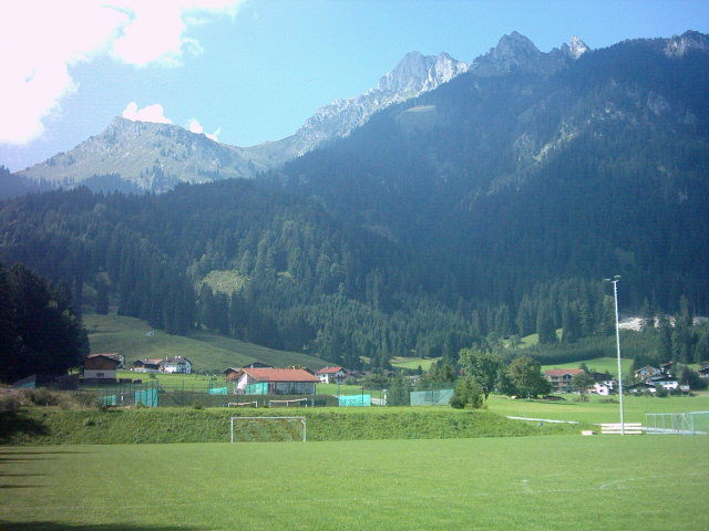 View from a football field south of Wängle, Tyrol, Austria. From the left to the right the Schneid or Schneidspitze (2009 metres), Gehrenspitze (2163 m) and Blachenspitze (1965 m) (Allgäu Alps).